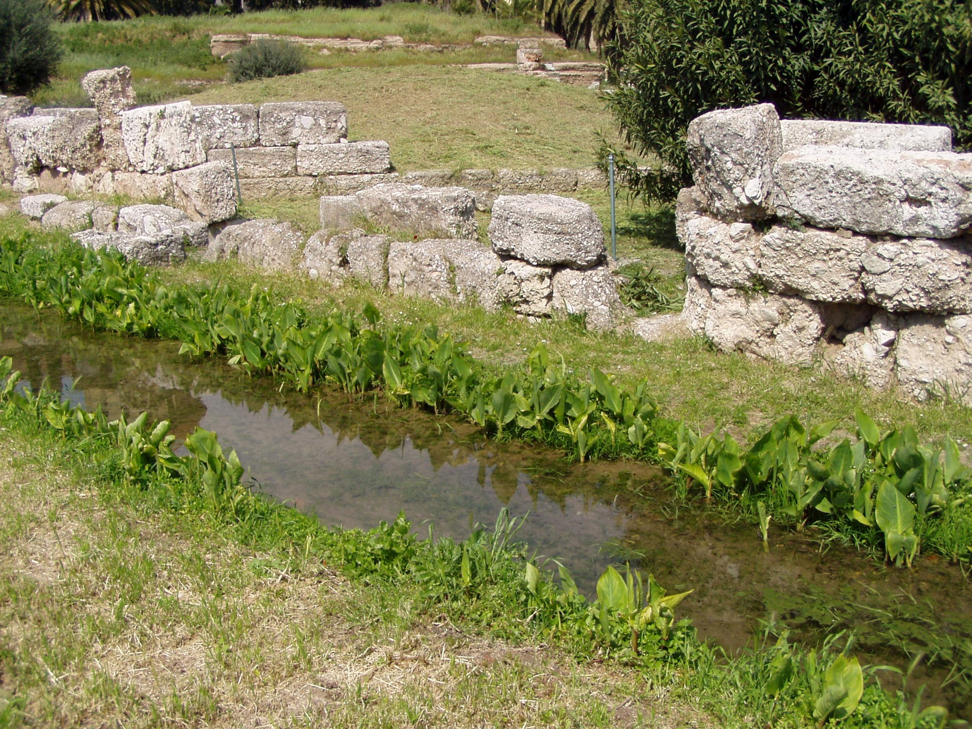 This is the Kerameikos in Athens.